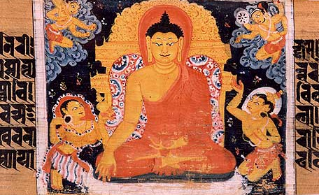 Painting of Gautama Buddha sitting in Dhyana, unharmed by the demons of Mara. Sanskrit Astasahasrika Prajnaparamita Sutra manuscript written in the Ranjana script. Nalanda, Bihar, India. Circa 700-1100 CE.